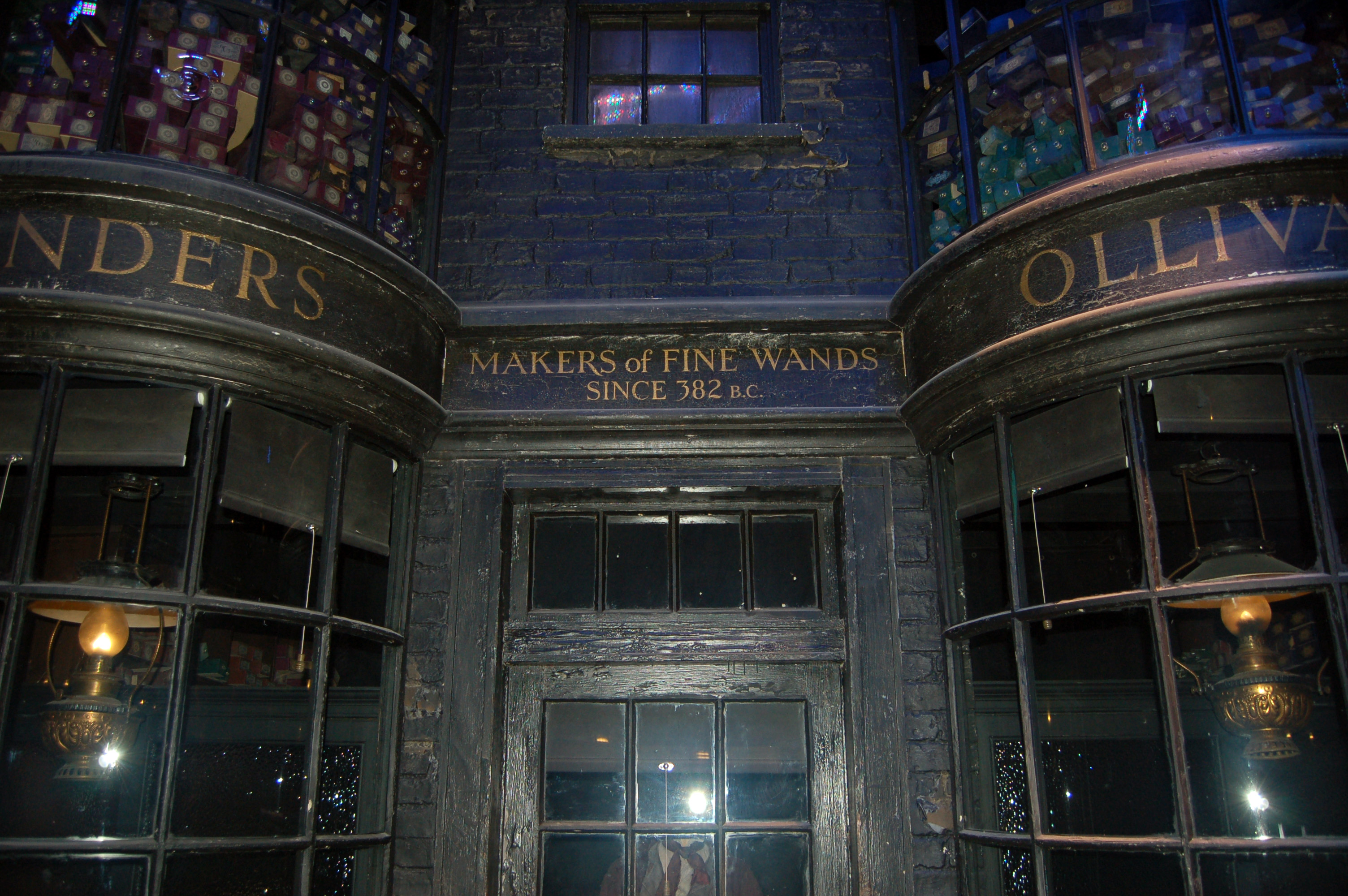 Ollivanders Wand Shop, Diagon Alley